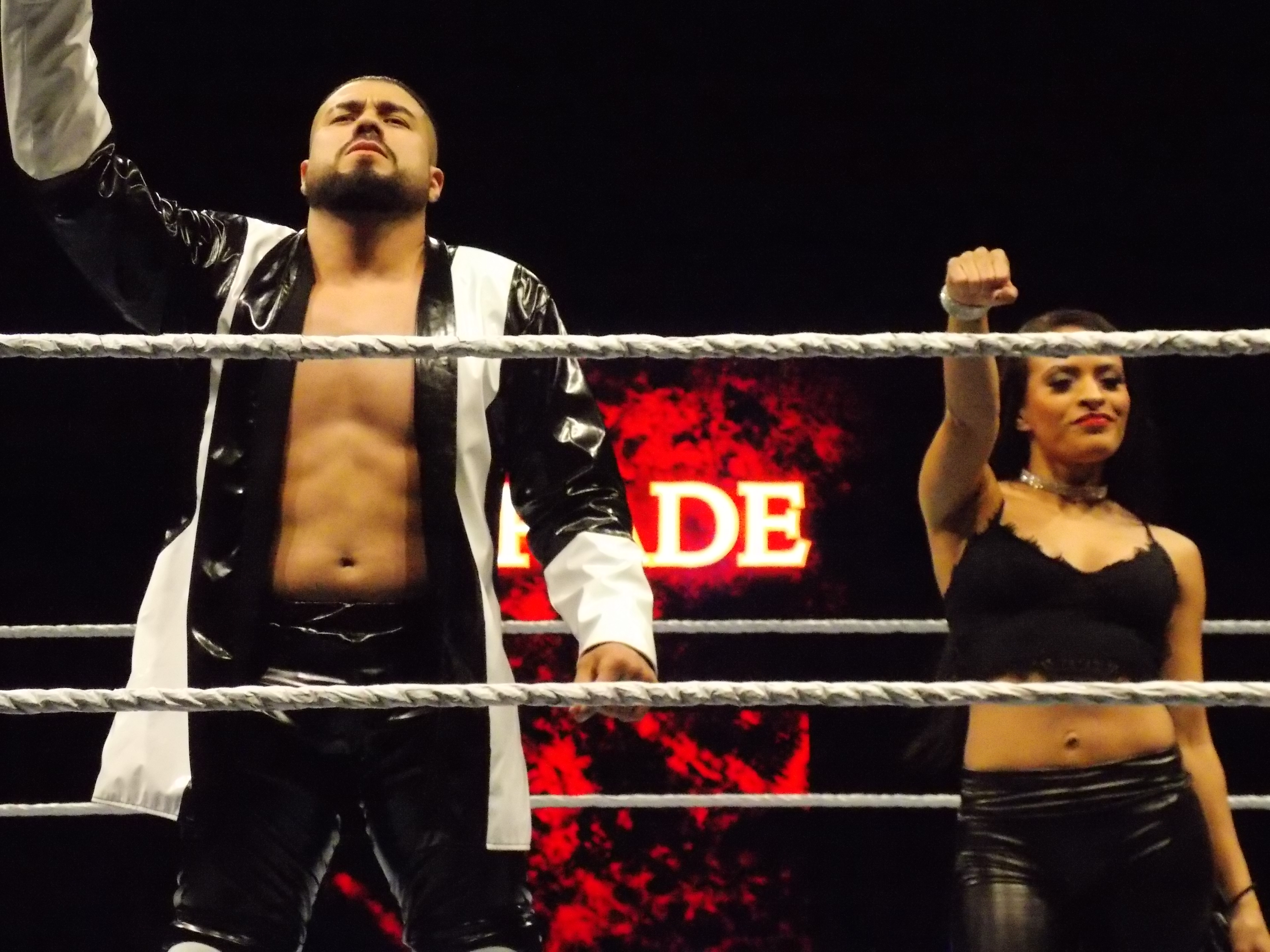 Andrade & Zelina Vega at a WWE Live Event House Show in Omaha, Nebraska, USA on Sunday, August 18, 2019